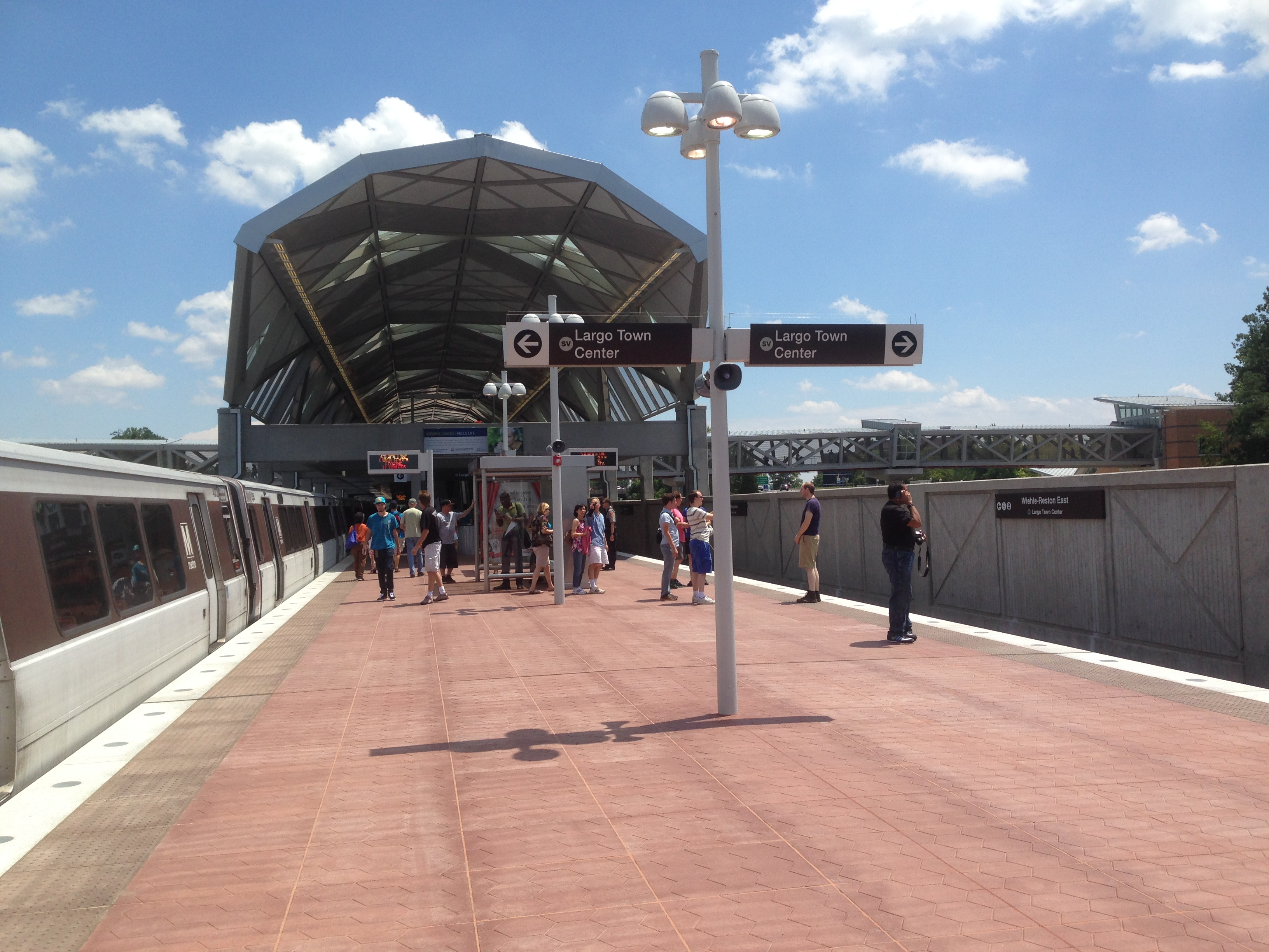 Platform of the Wiehle–Reston East WMATA station on its first day of operation